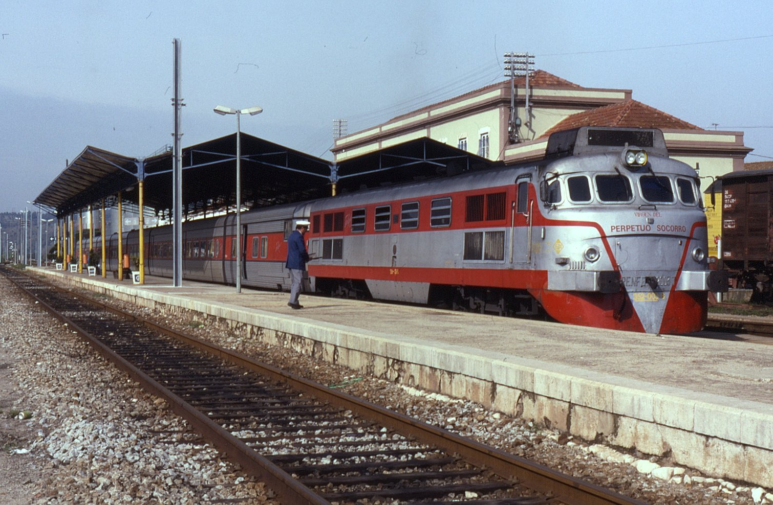 Taken in the days when there were two trains per day between Lisbon and Madrid. The daytime train was once a 2-car TER express railcar set owned by RENFE. This then switched over to Talgo stock operated by one of the matching locos throughout and were given the EuroCity (EC) branding. Various builds of Talgo diesel locos operated many with distinctive sounding Maybach engines such as the class seen here. Taken on 12 November 1993, 352.003 is seen working train EC31, 11:55 Lisboa Santa Apolónia to Madrid Chamartín is ready to depart Abrantes. The daytime service has been withdrawn and nowadays the two cities are connected on the once per day overnight service formed of Talgo stock but hauled by "regular" RENFE and CP locos.